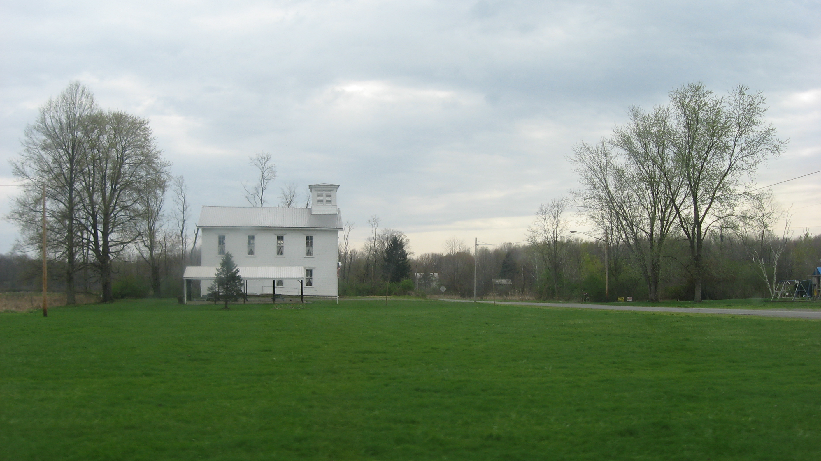 Northern side of the former Greene Township School, located on the southeastern corner of the junction of State Route 87 and Durst Colebrook Road at Kenilworth in Greene Township, Trumbull County, Ohio, United States. It is part of the Greene Township Center, a historic district that is listed on the National Register of Historic Places.